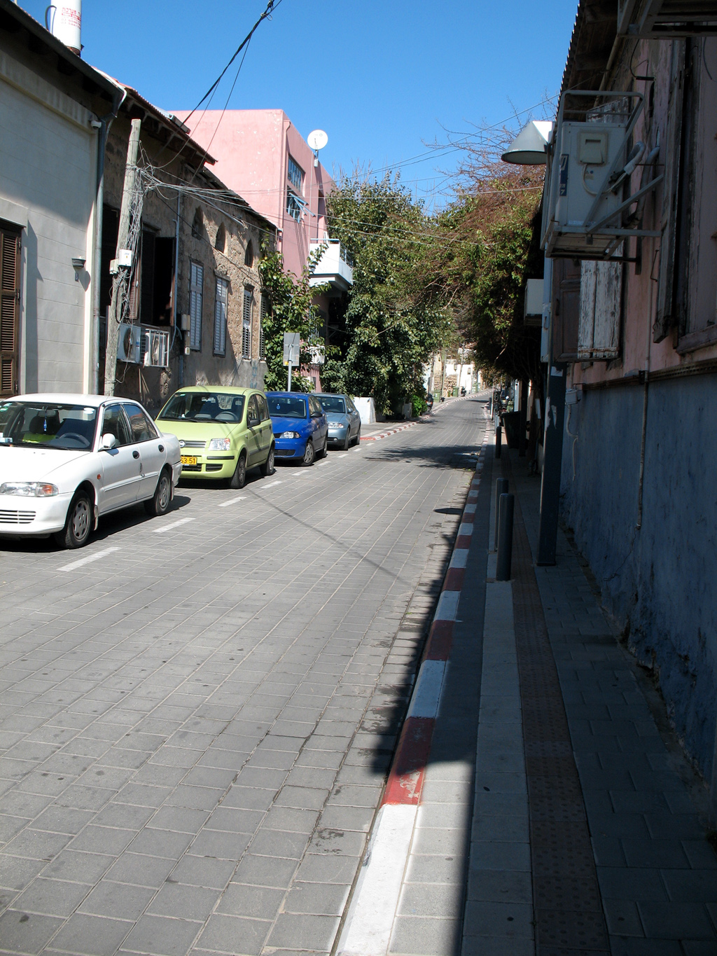 A typical street in the Neve Tzedek neighborhood in Tel Aviv. This may or may not be the actual Neve Tzedek Street.